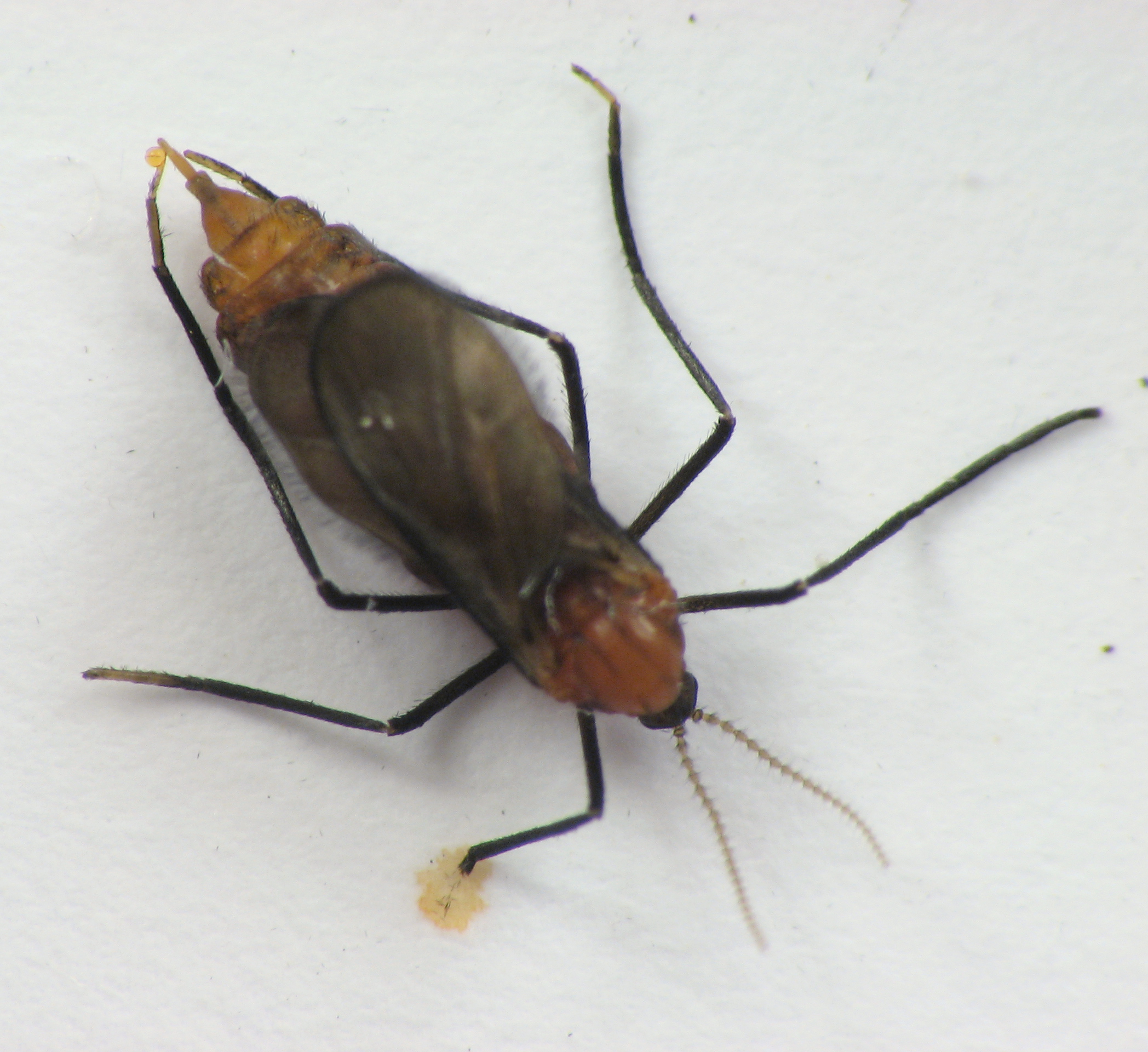 Rhopalomyia solidaginis, (goldenrod bunch gall midge), dorsal view, female. Size: 5.5-6 mm. Peace Valley Nature Center, Bucks County, Pennsylvania, USA